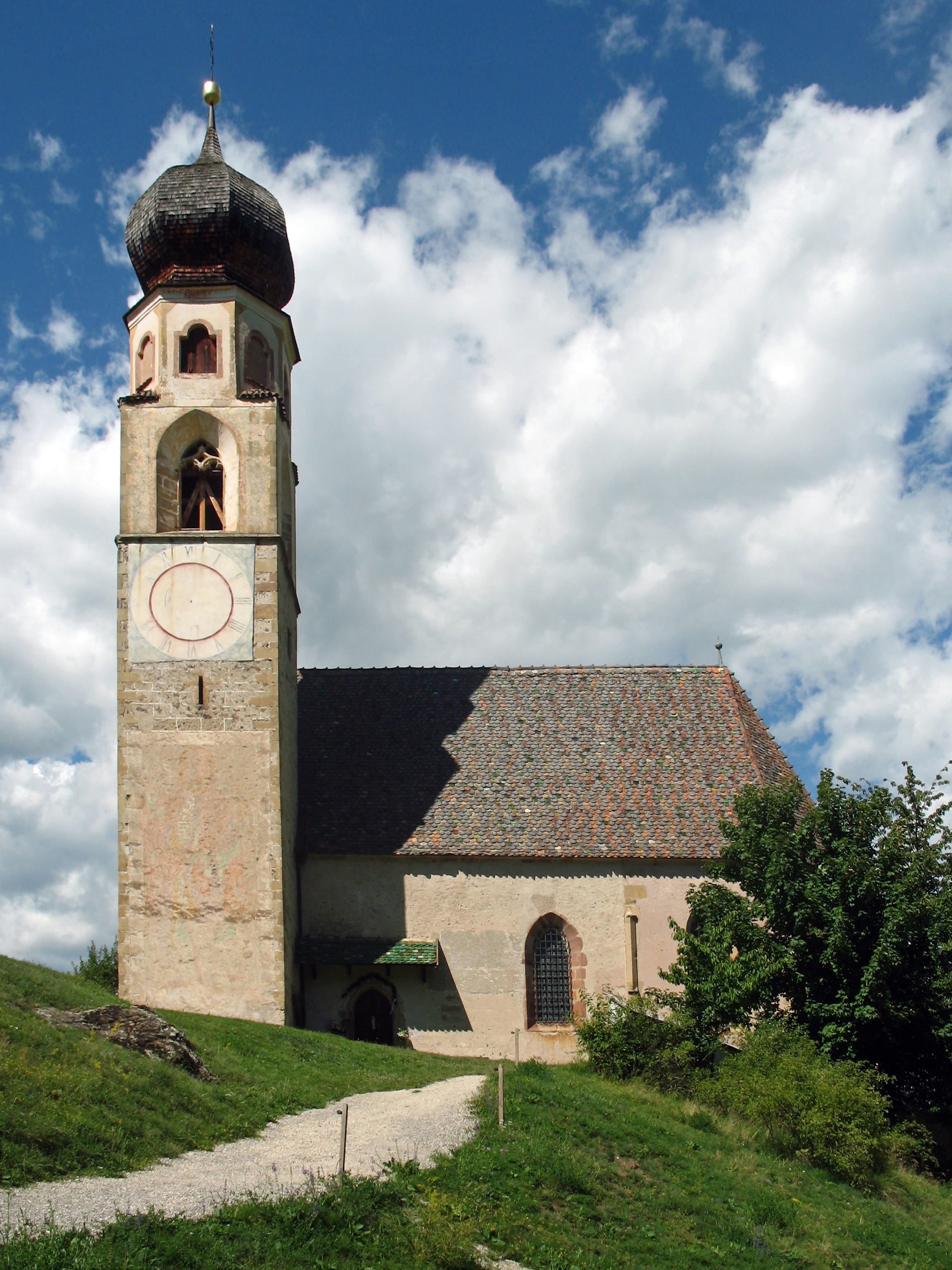 St. Constantine near Völs am Schlern in South Tyrol